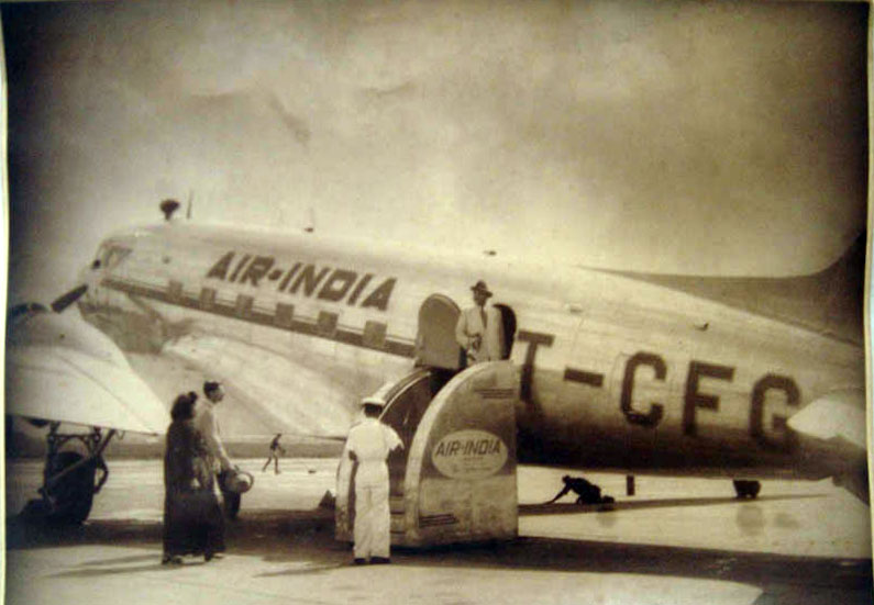 Vintage photograph of an Air India plane